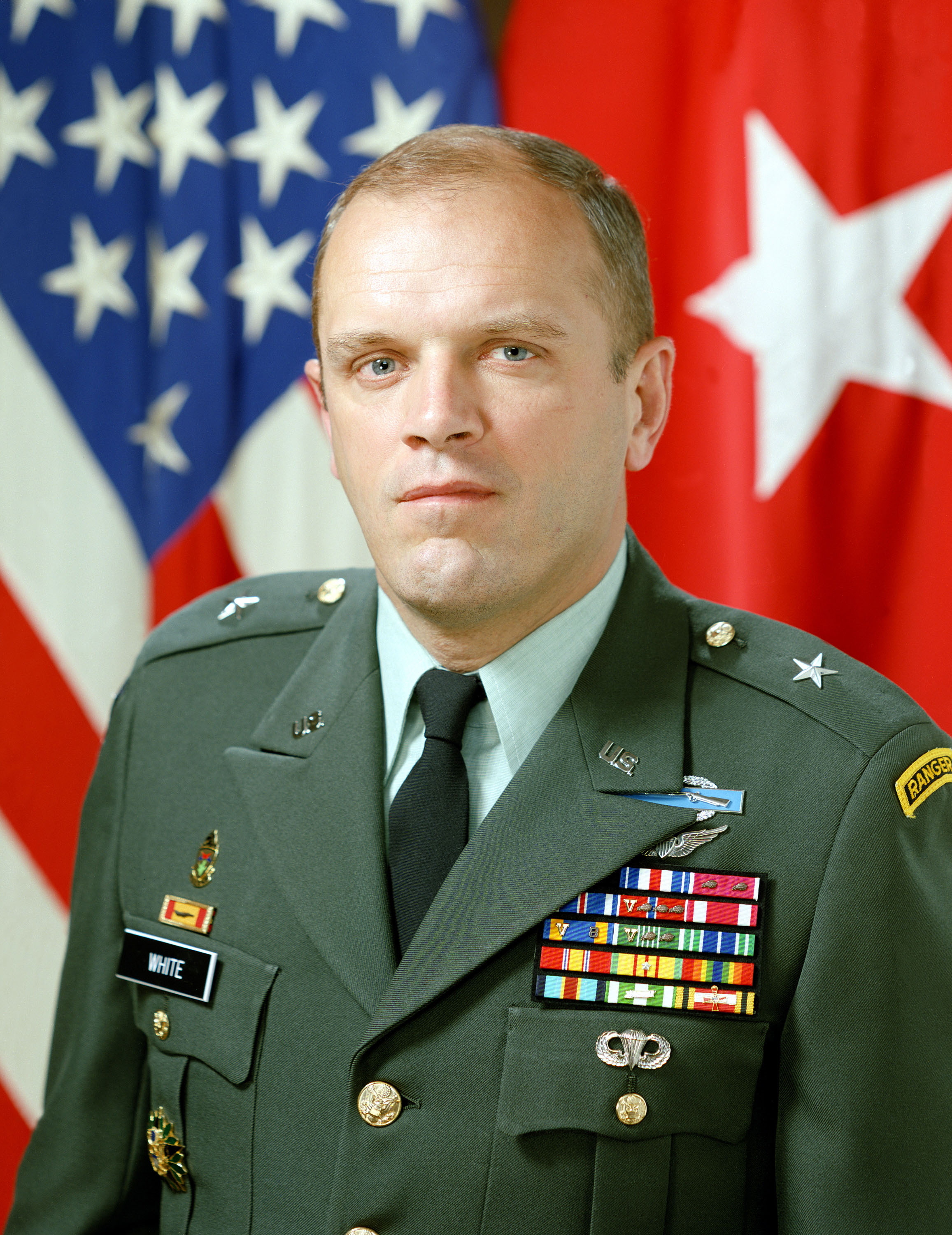 Brigadier General Thomas E. White, who would later become Secretary of the Army.